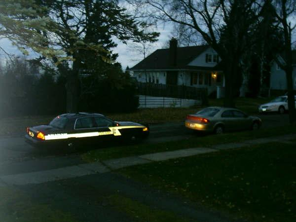 Minnesota State Trooper, Robinson Street, Duluth, MN, Fall 2005 during a pullover. Matthew J. S. Denn